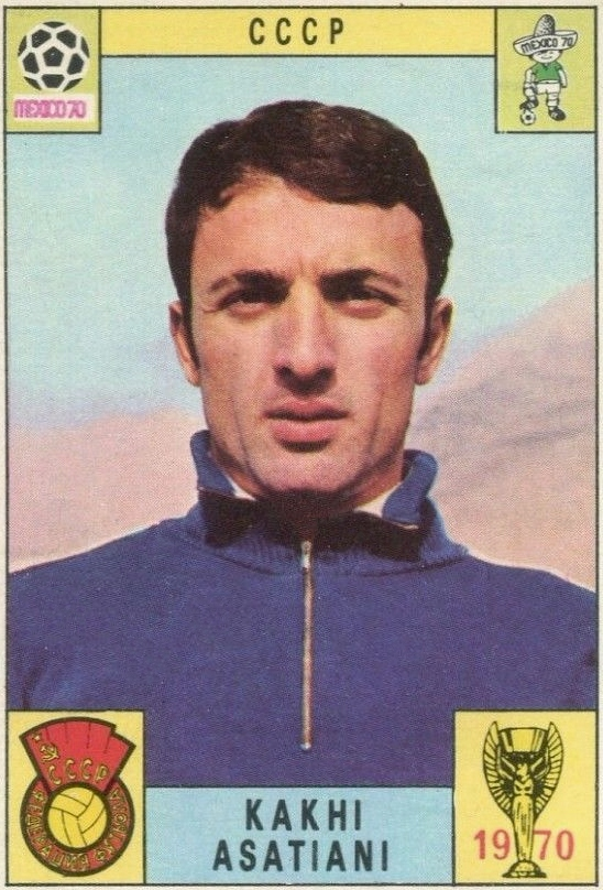 FIGURINA CALCIATORI PANINI - MEXICO 70 - KAKHI ASATIANI - CCCP - rec.